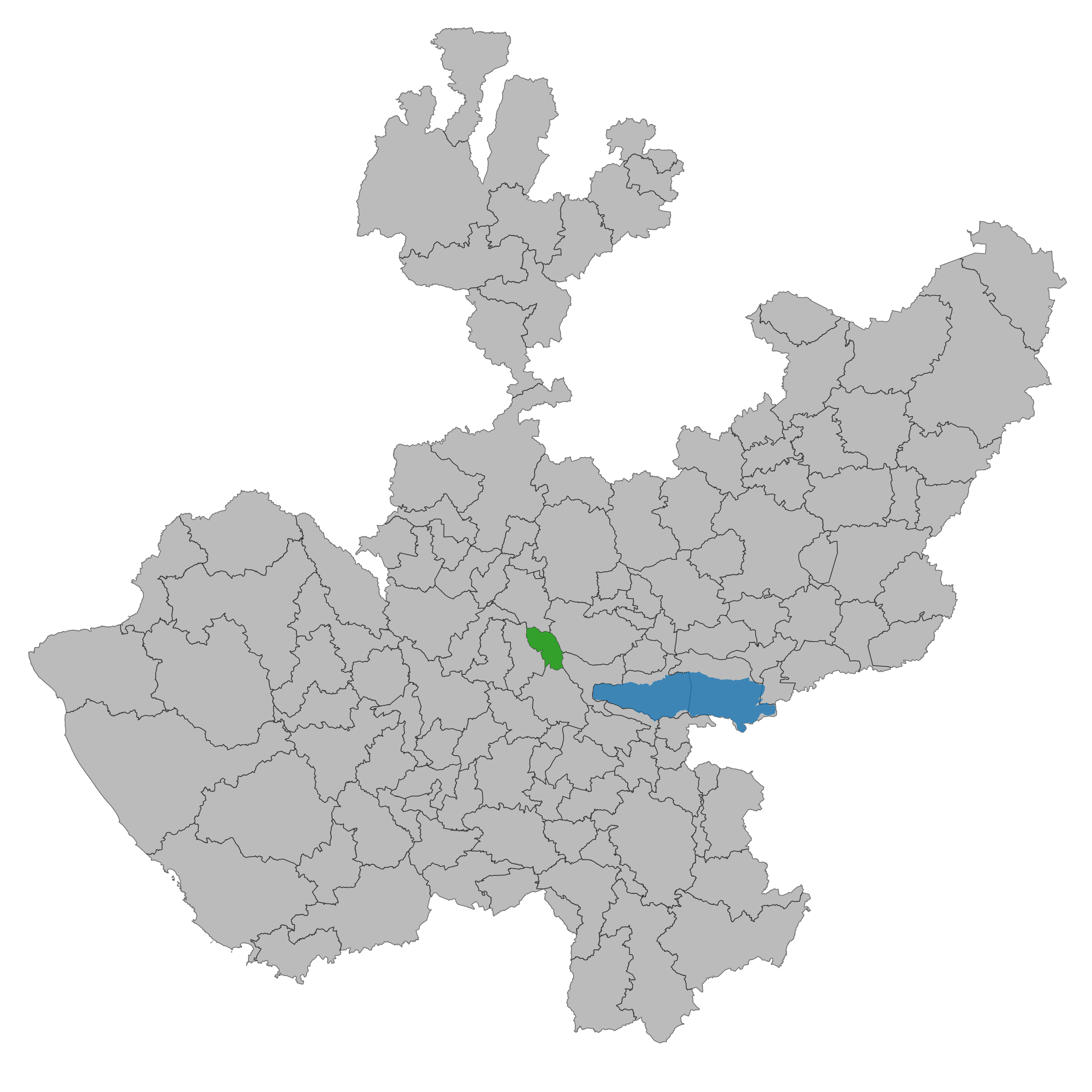 Municipality of Jalisco. Prepared with the software QGIS version 2.8.2 Wien & with information of SCINCE 2010 version 05/2013